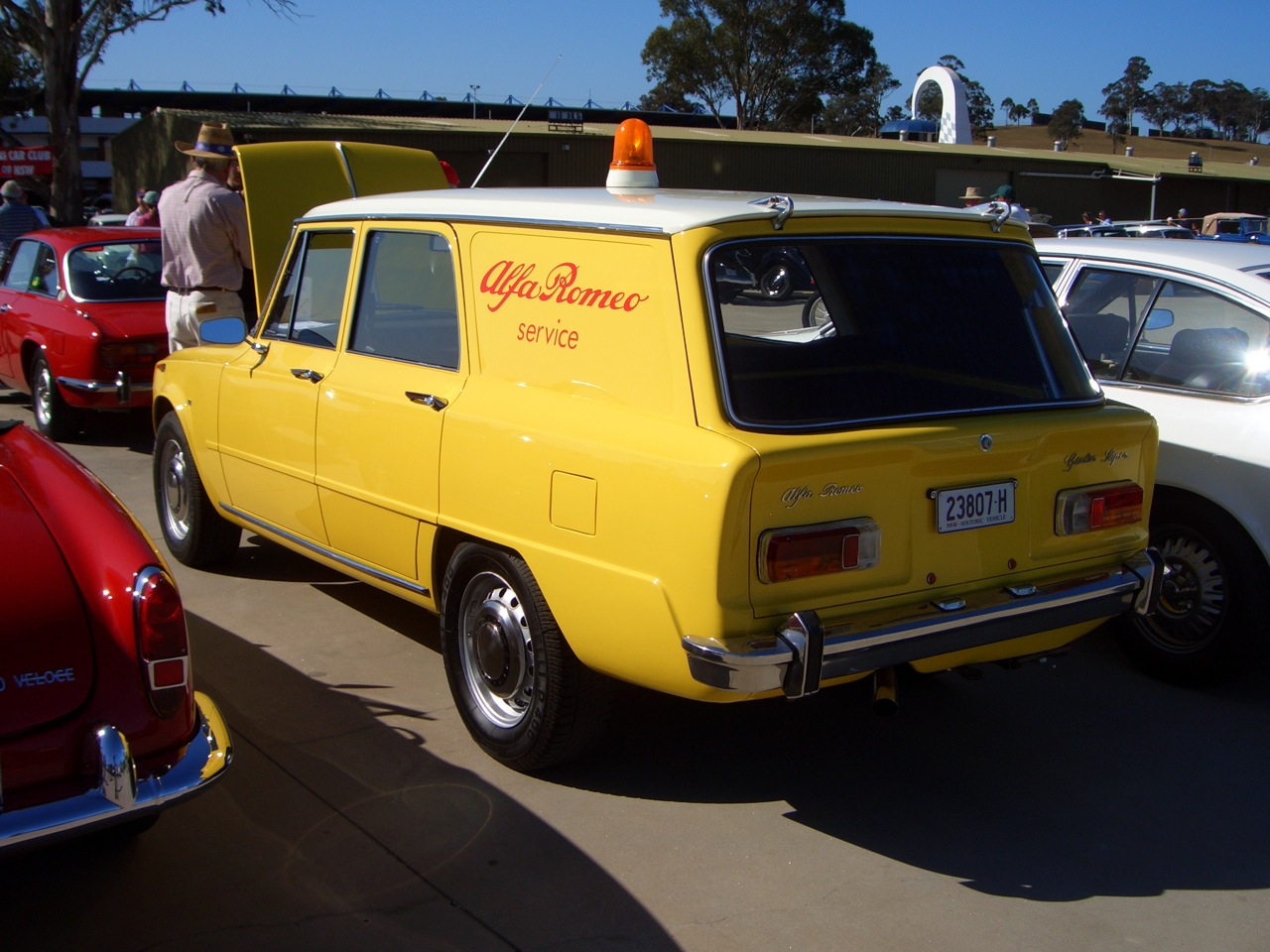 2005 Shannon's Eastern Creek Classic Car Show, August 28, 2005